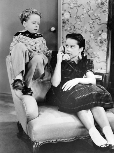 Publicity photo of Rusty Hamer and Sherry Jackson as Rusty and Terry Williams from the television program Make Room for Daddy.